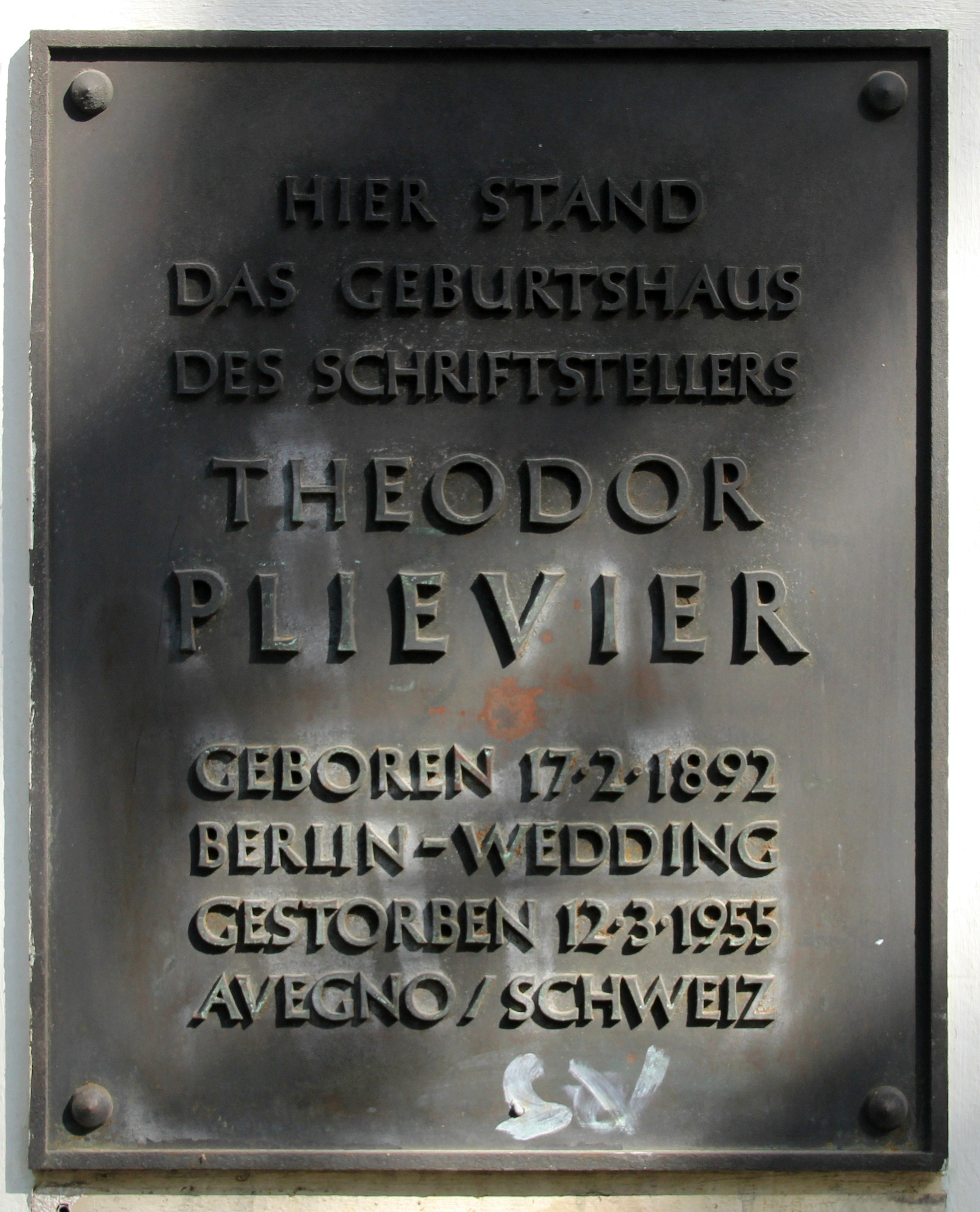 Memorial plaque, Theodor Plievier, Wiesenstraße 29, Berlin-Gesundbrunnen, Germany